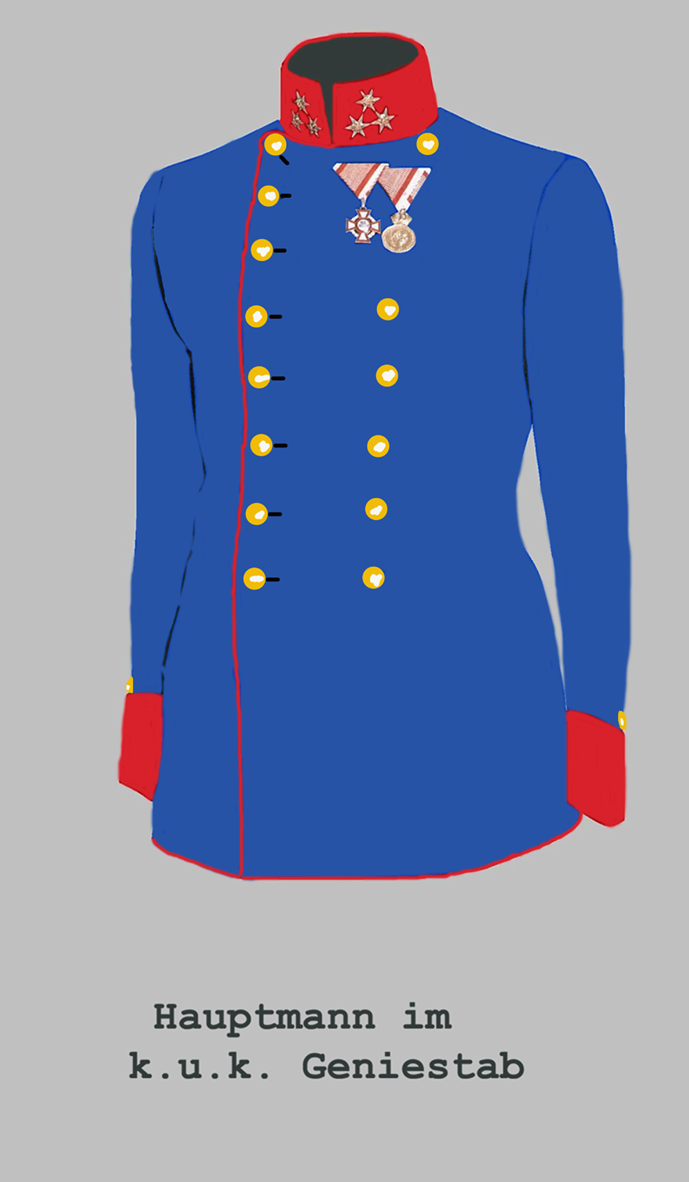 Tunic of an Captain of the Austria-Hungarian k.u.k. Engineers-Office